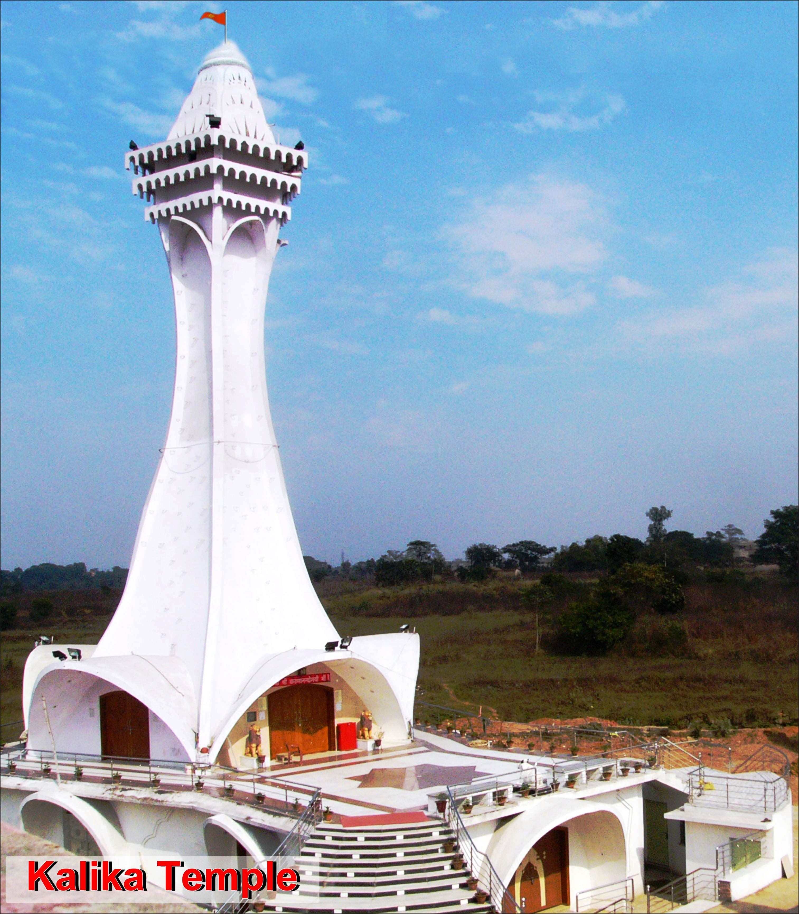 The panoromic view of Kalika Maharani Mandir at Chira Chas